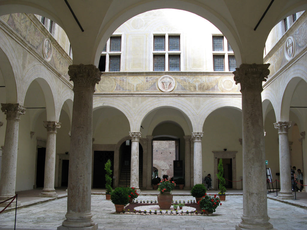 see above